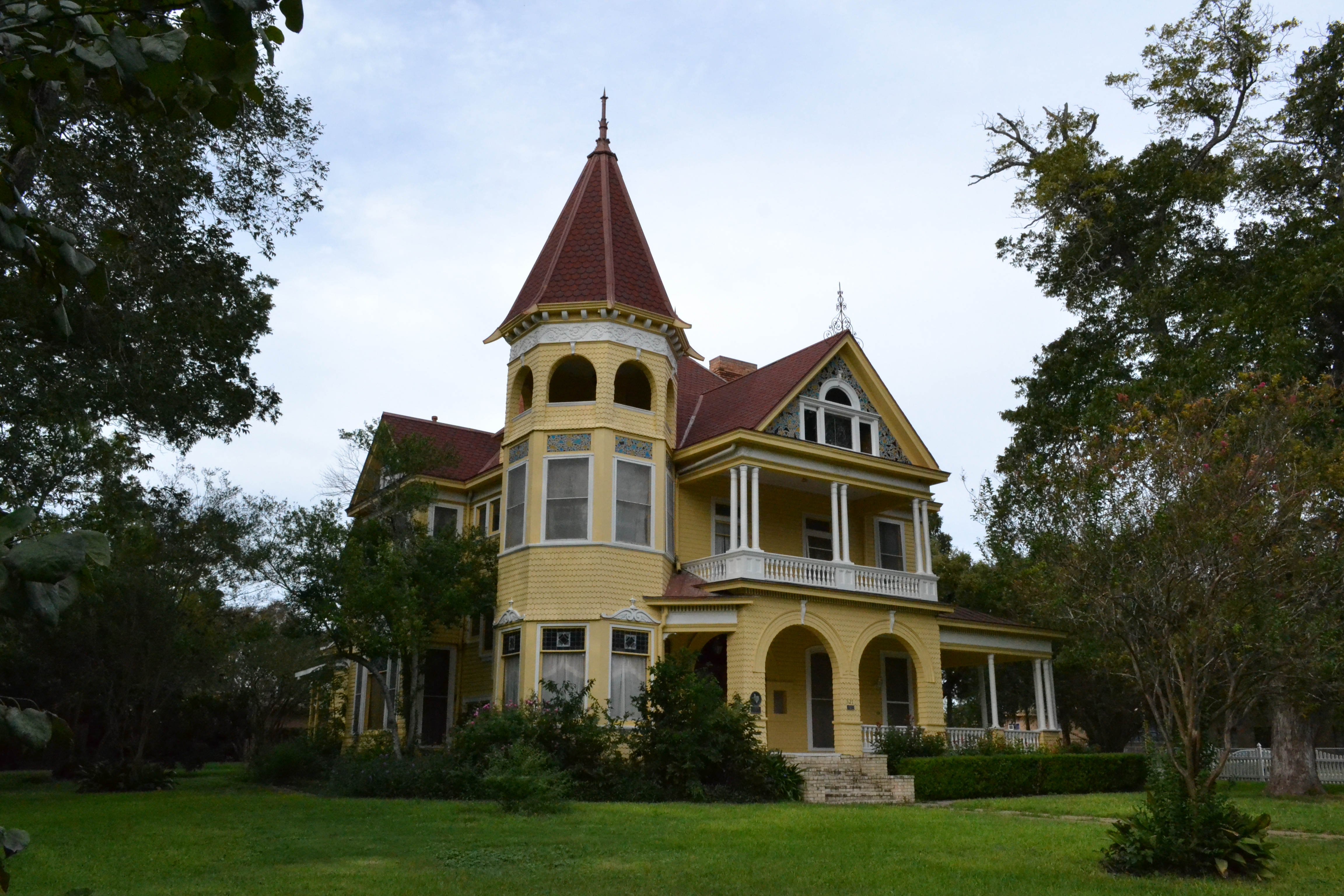 Kennard House, Gonzales, Texas. Listed on the National Register of Historic Places.